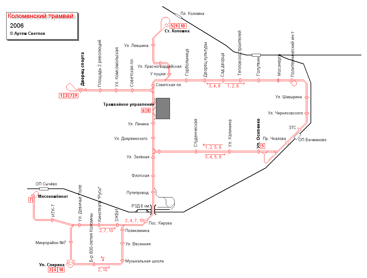 Scheme of Kolomna tramway network